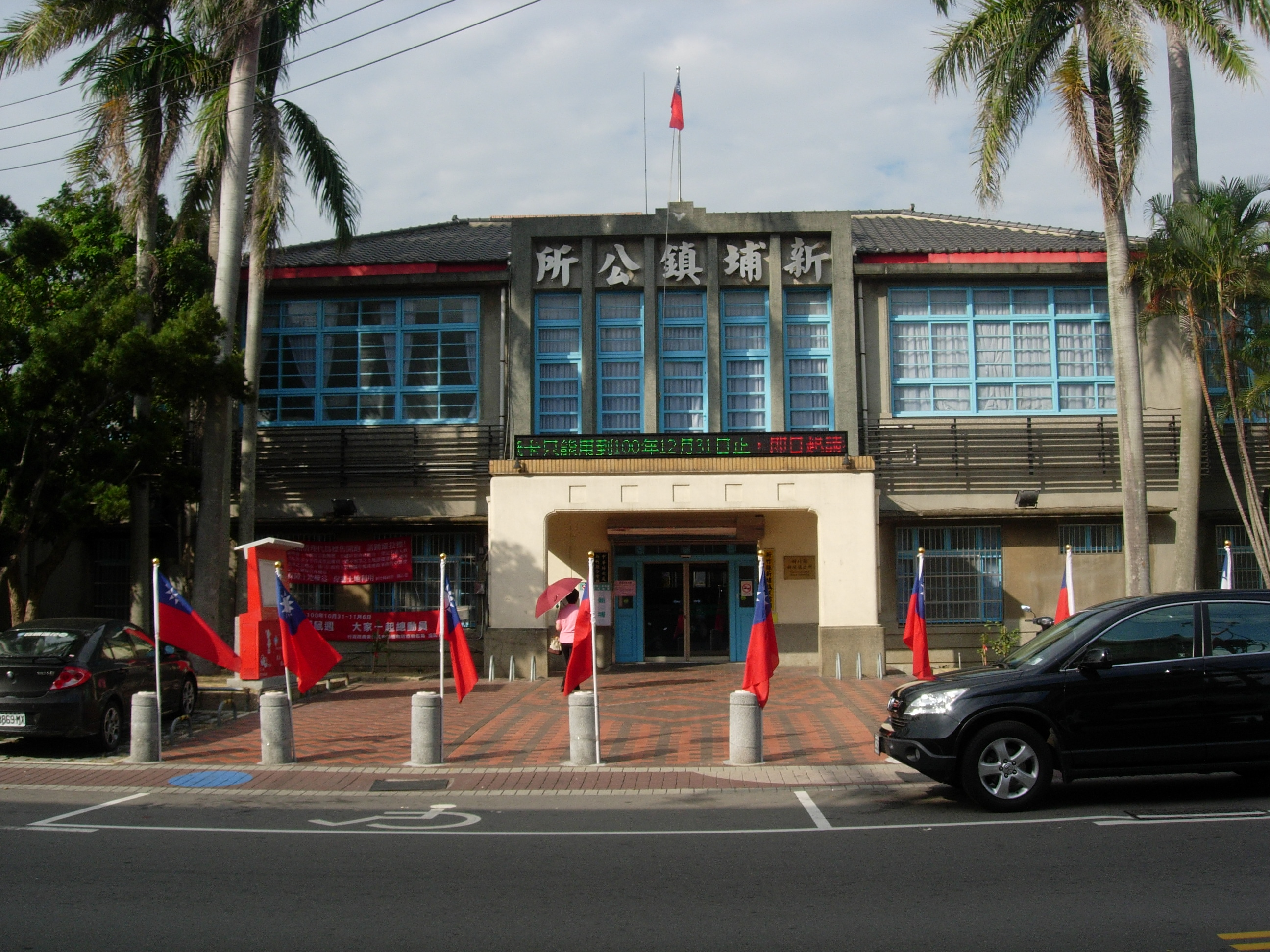 Hsinpu Township Office Building